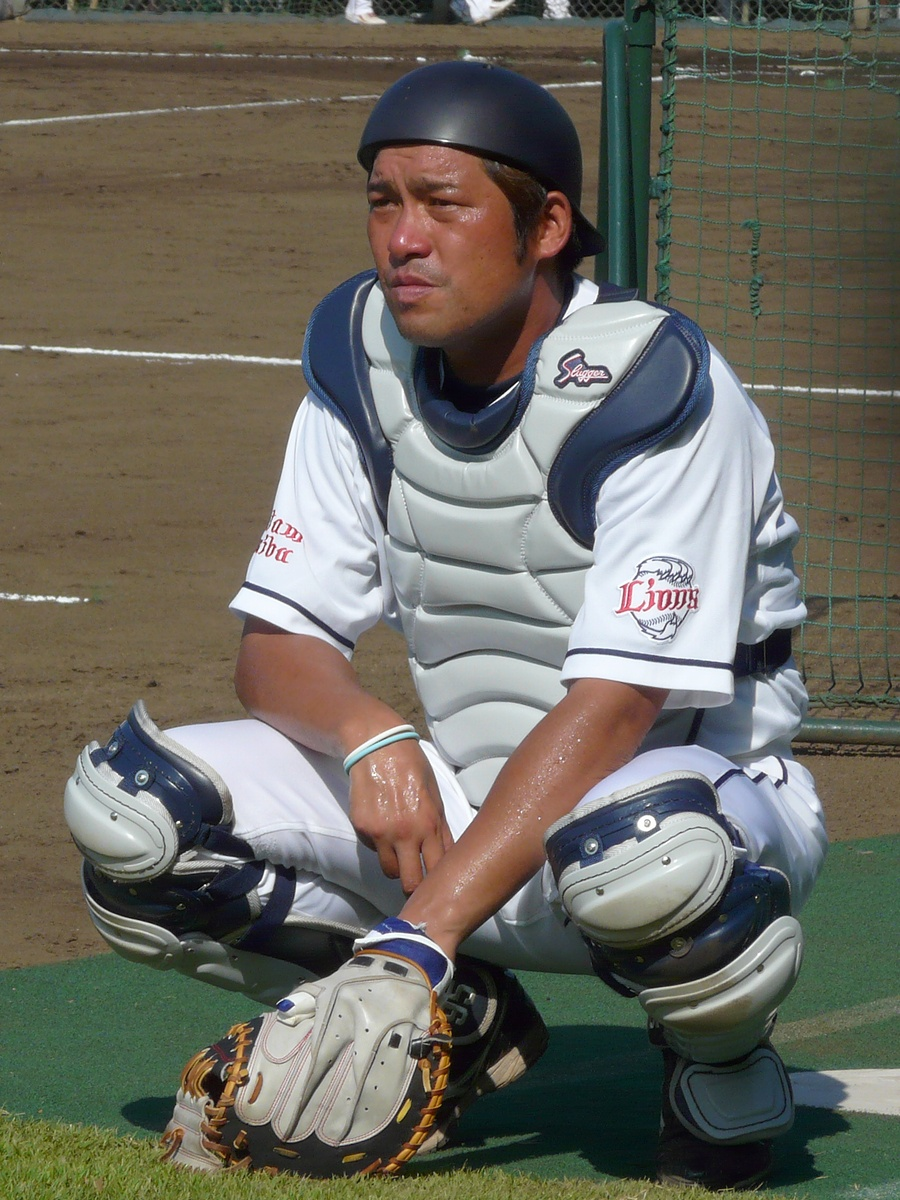 SL-Toshiaki-Inubushi20100826